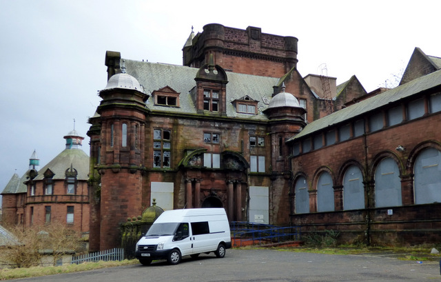 Former Royal Alexandra Infirmary